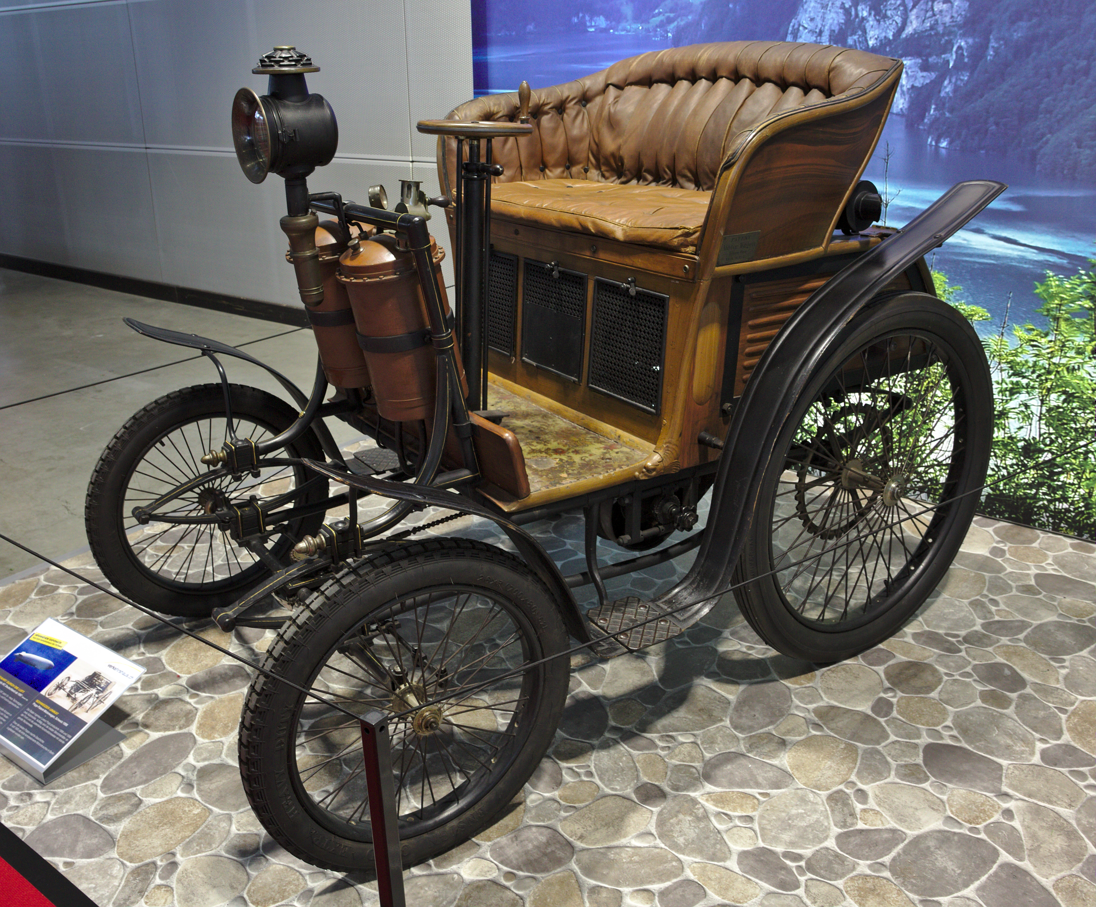 Popp-Patent-Motorwagen at Retro Classics 2018